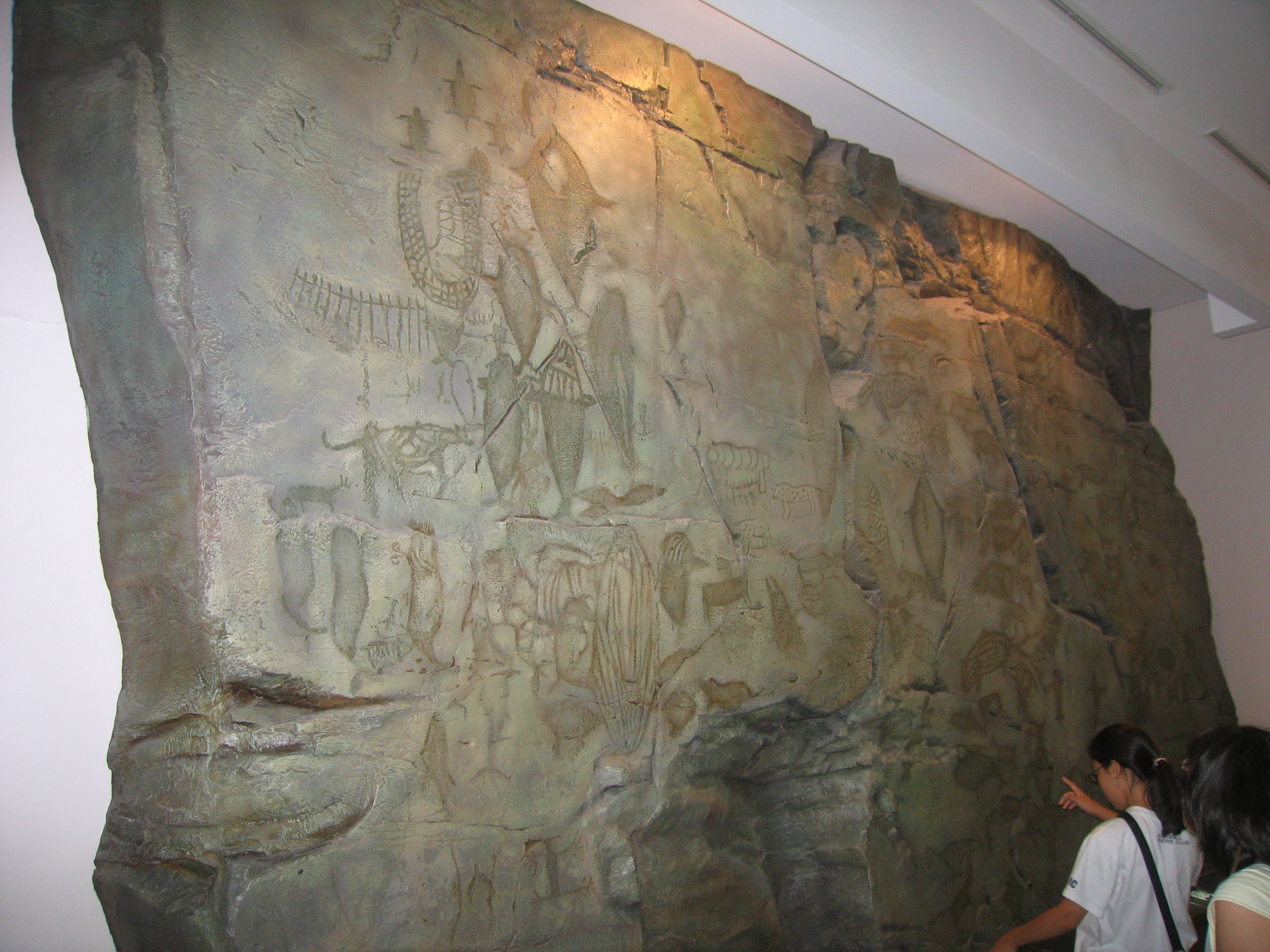 A replica of the petroglyphs at the Gyeongju National Museum.